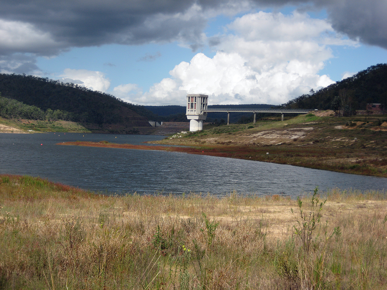 Lake Cressbrook, only 12 percent full, Biarra, 22 March 2008